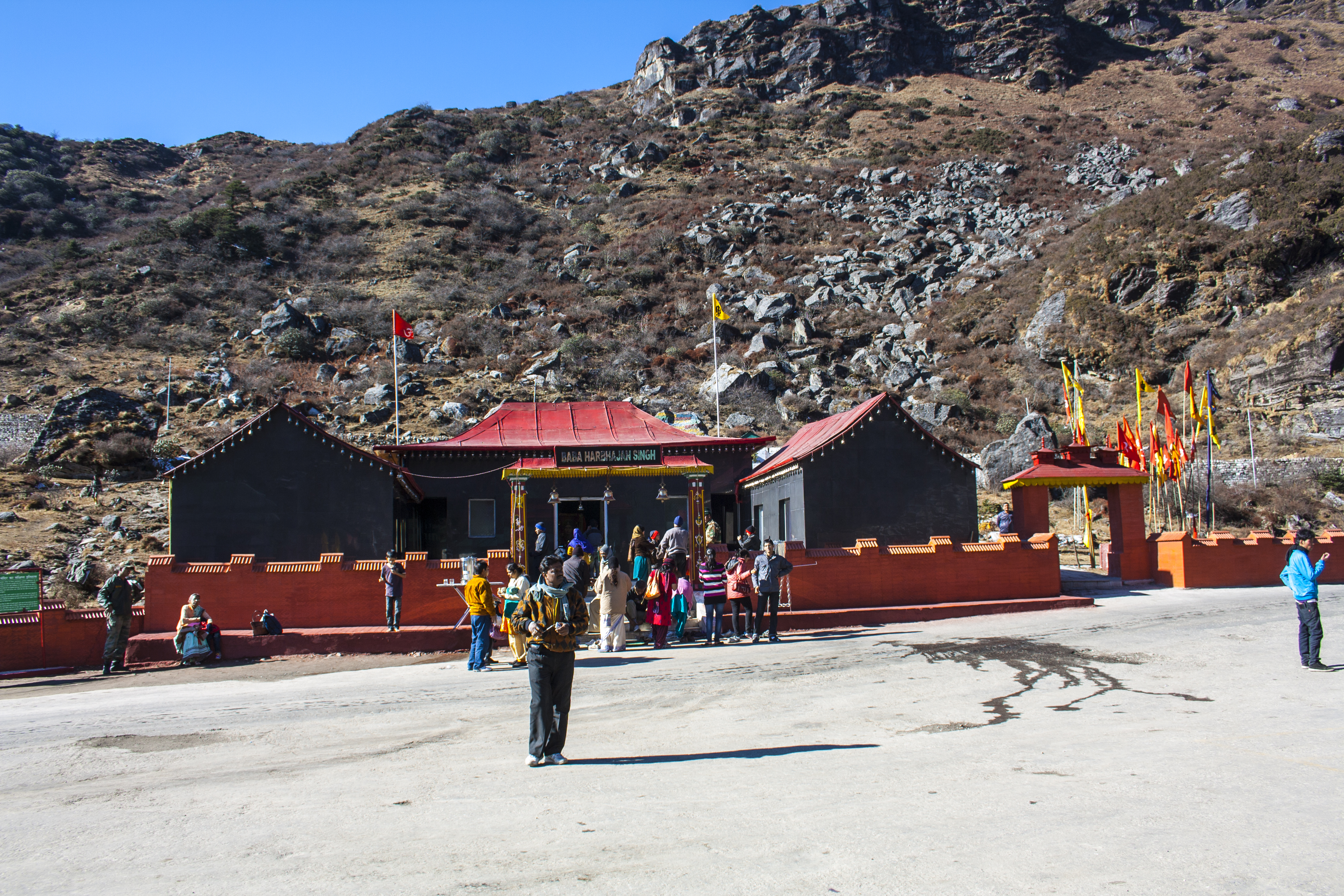 Photograph has been taken during my visit to Nathula Pass, Sikkim. Baba Harbhajan Singh Temple is very popular among visitor and as well as in Indian Armies. Harbhajan Singh was Major in Indian Army (August 3, 1941 – September 11, 1967) and this shrine is situated near Nathula Pass, Sikkim.